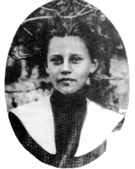 Tatyana Lappa - First wife of Russian writer and playwright Mikhail Bulgakov